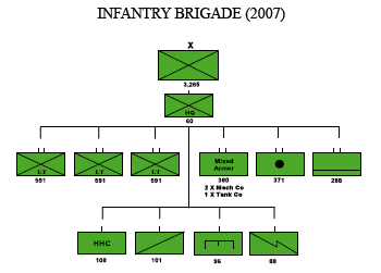 Georgian Land Forces Infantry Brigade structure, 2007